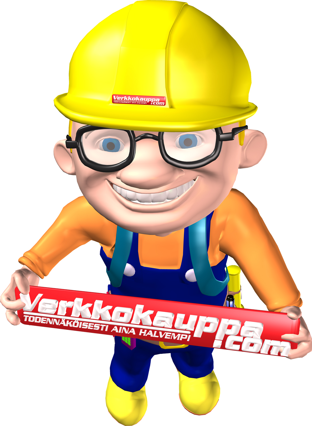 Verkkokauppa's mascot and 2010-logo